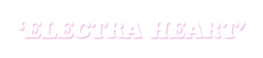 Electra Heart